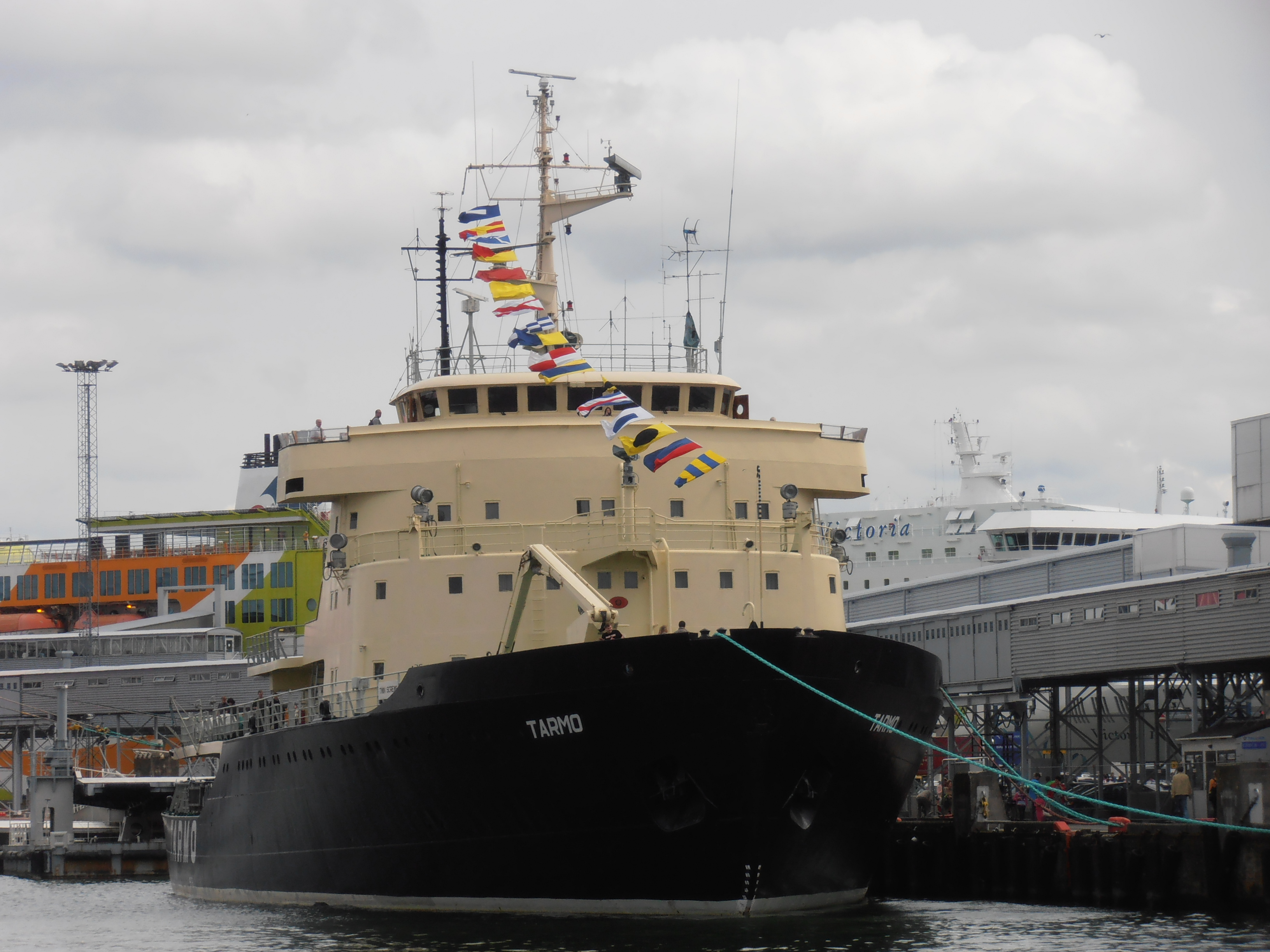 Icebreaker Tarmo (1963 IMO 5352886) in Port of Tallinn on July 14, 2012